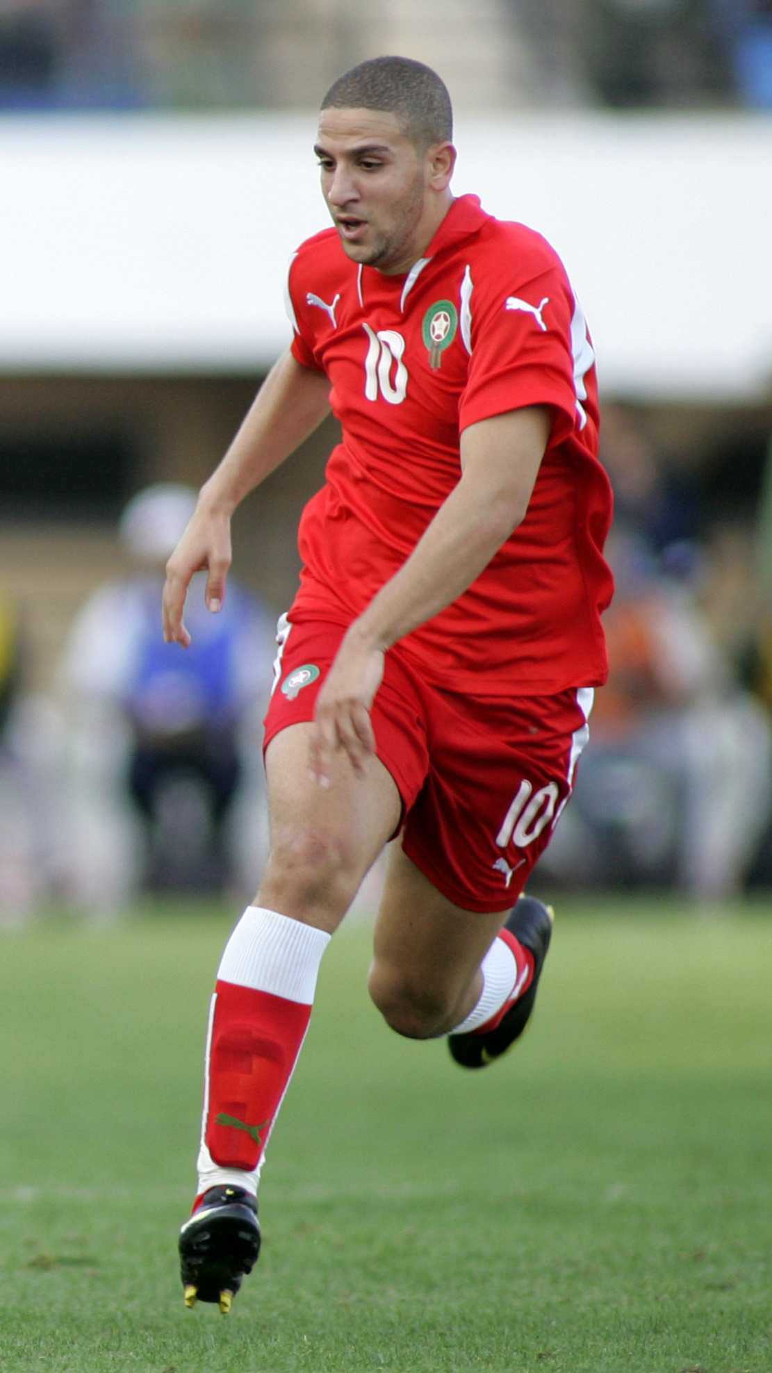 2010 FIFA World Cup Qualifiers This file has been extracted from another file: Achille Emana vs Adel Taarabt.jpg